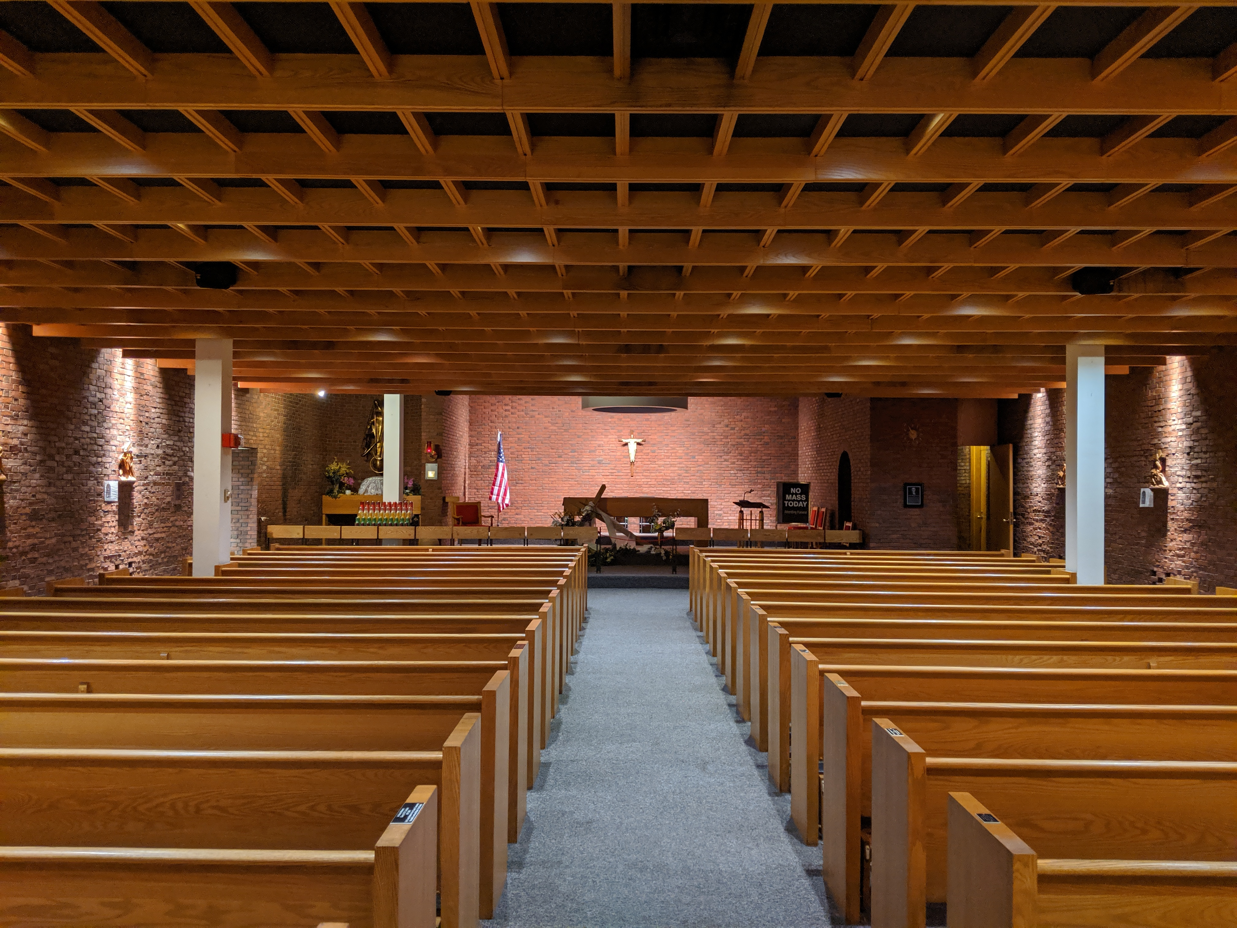 Interior of Our Lady of the Airways Chapel at Boston Logan International Airport. The chapel is the oldest airport chapel in the world, opening originally in 1951 in another part of the airport. This photo is of the second chapel that replaced the original. It is located in Terminal C at Logan.